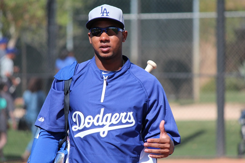 Erisbel Arruebarrena with the Dodgers, spring training 2014